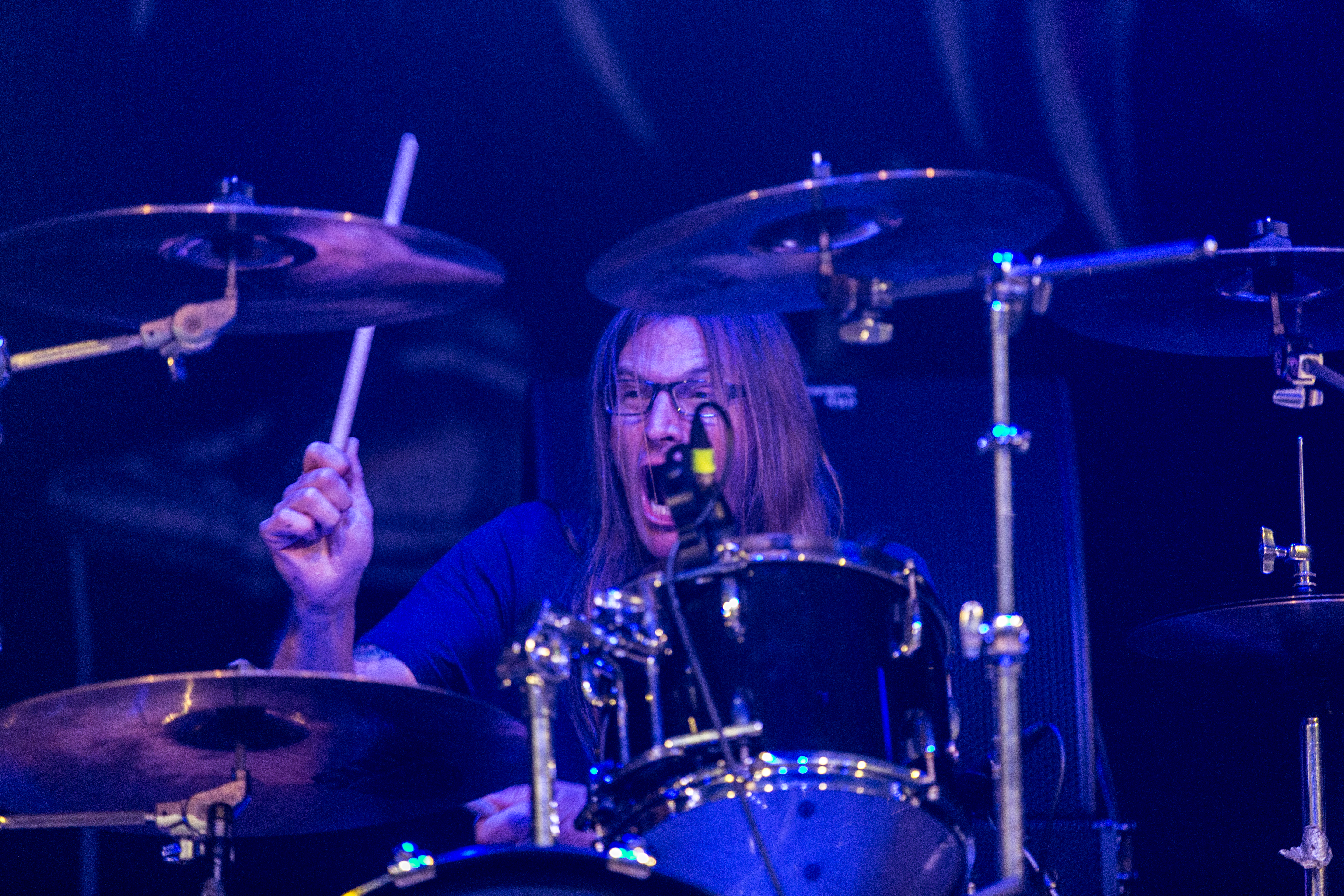 The German thrash metal band Tankard at the Metal Frenzy 2017 in Gardelegen/Germany.